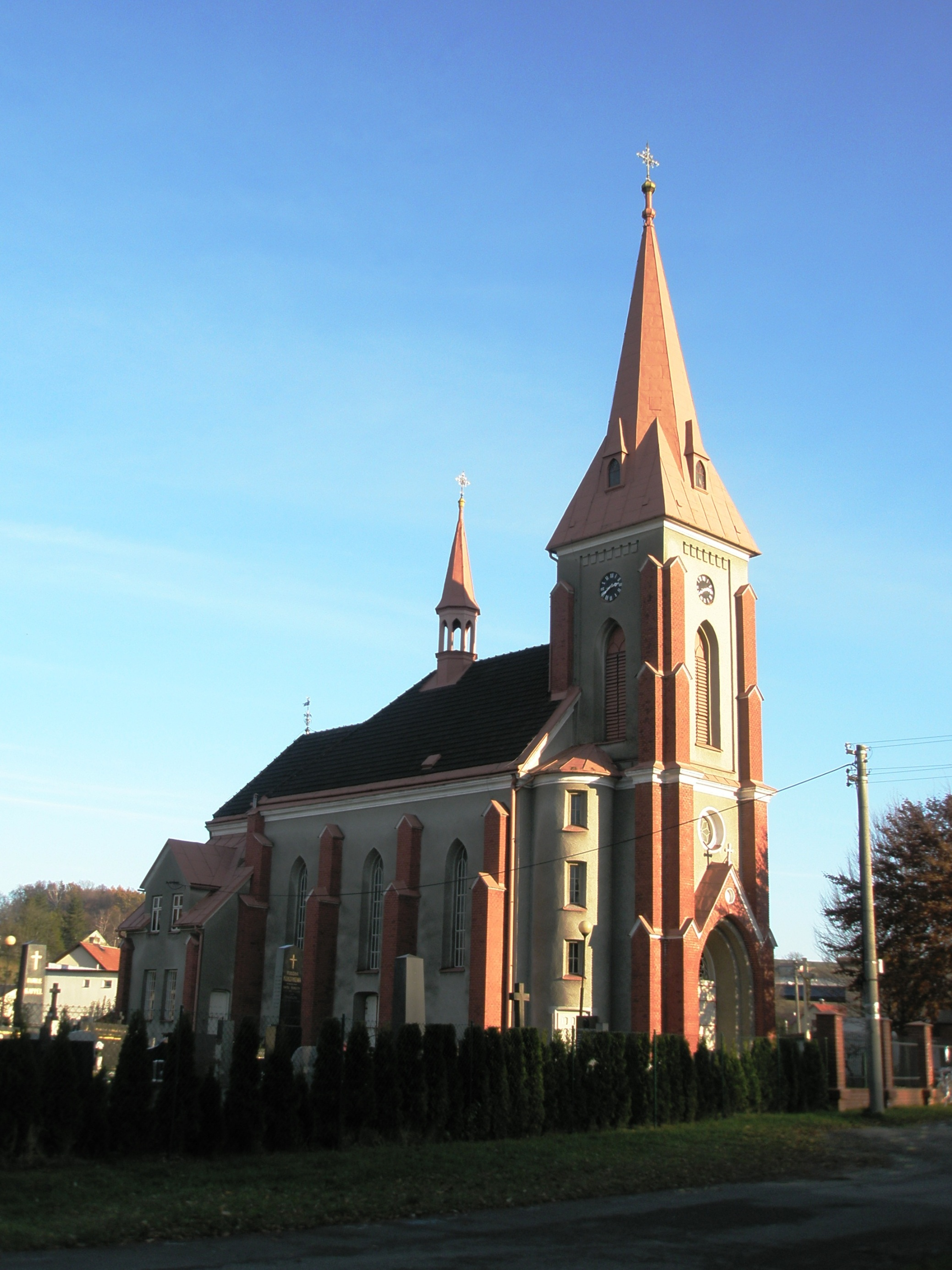 St. Bartholomew Roman Catholic church in Třanovice (built 1902-1904)